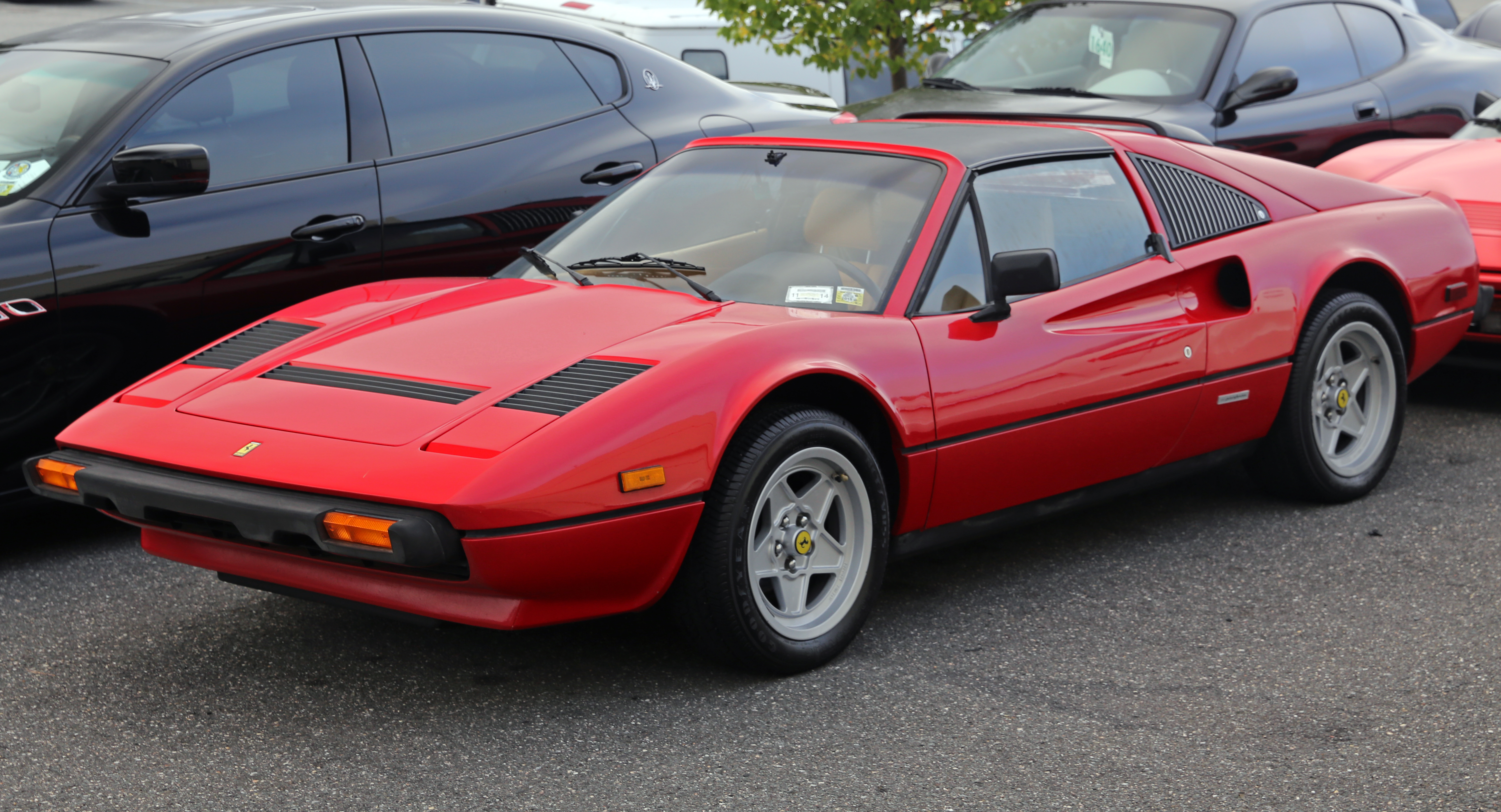 A 1985 Ferrari 308 GTS QV, US market model. Its F105E040 engine produces 235hp. No airbags or such, just the active seat belts.